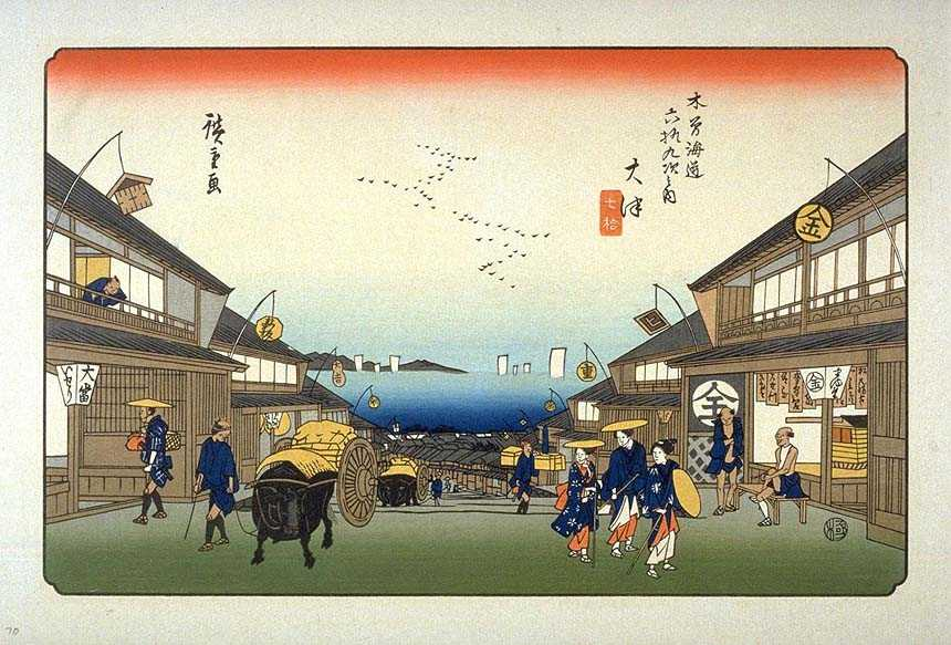 Otsu on the Kisokaido, ukiyo-e prints by Hiroshige